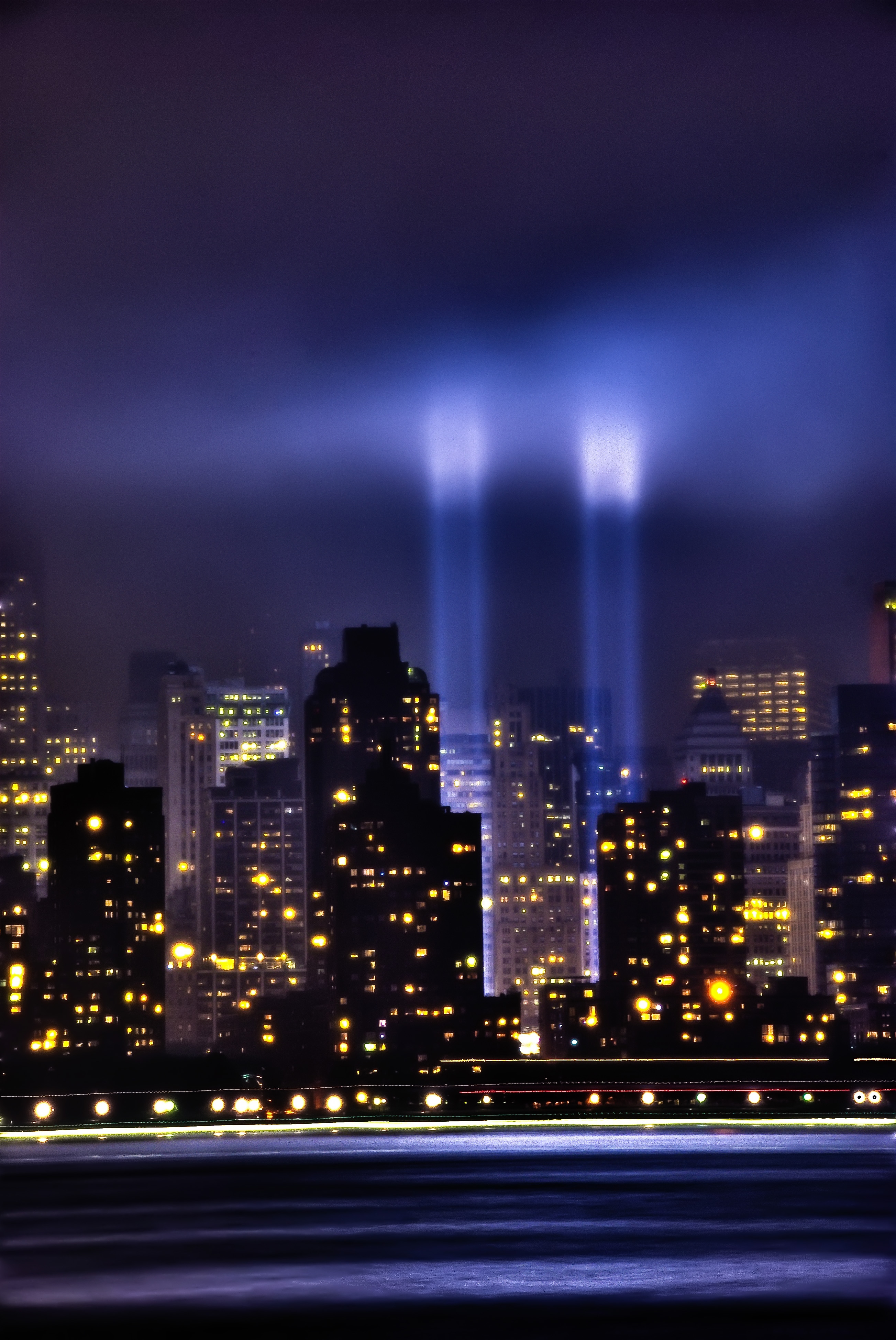 Tribute in Light, 11 September 2009.